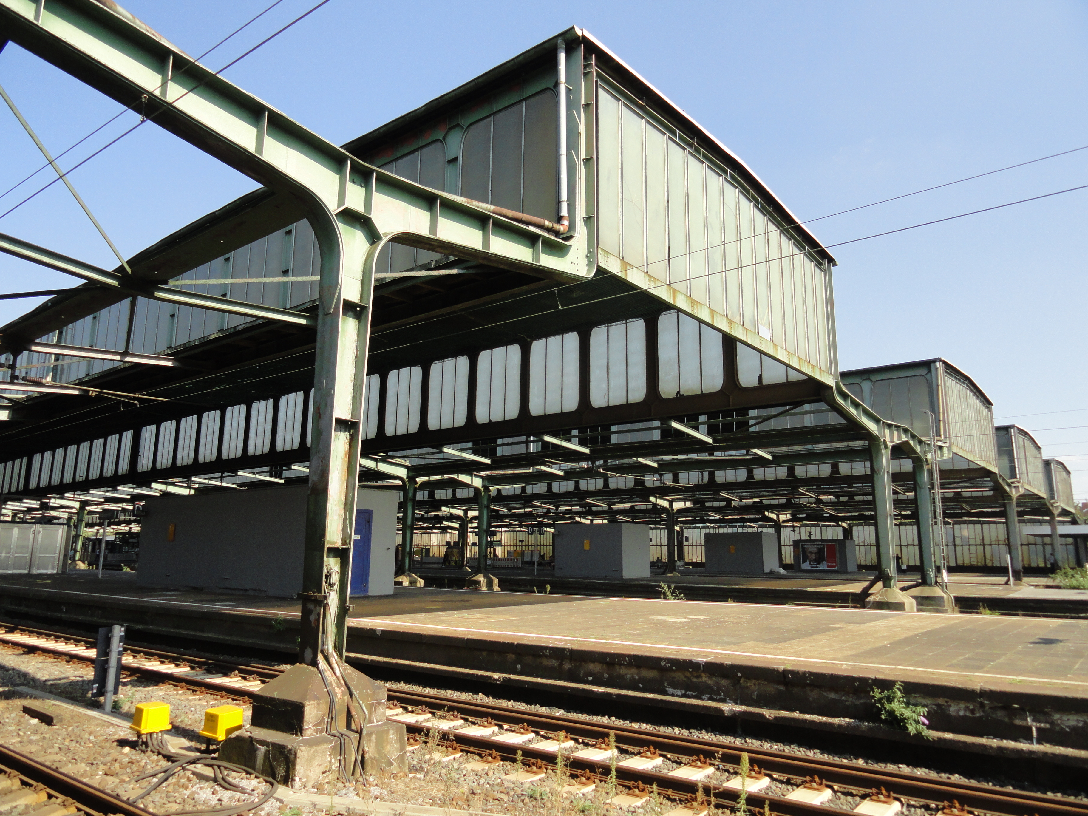 View of the historic, free-floating platform canopies (built from 1931-34, with recourse to Roman/early Christian basilicas with clerestory windows) from southwest.